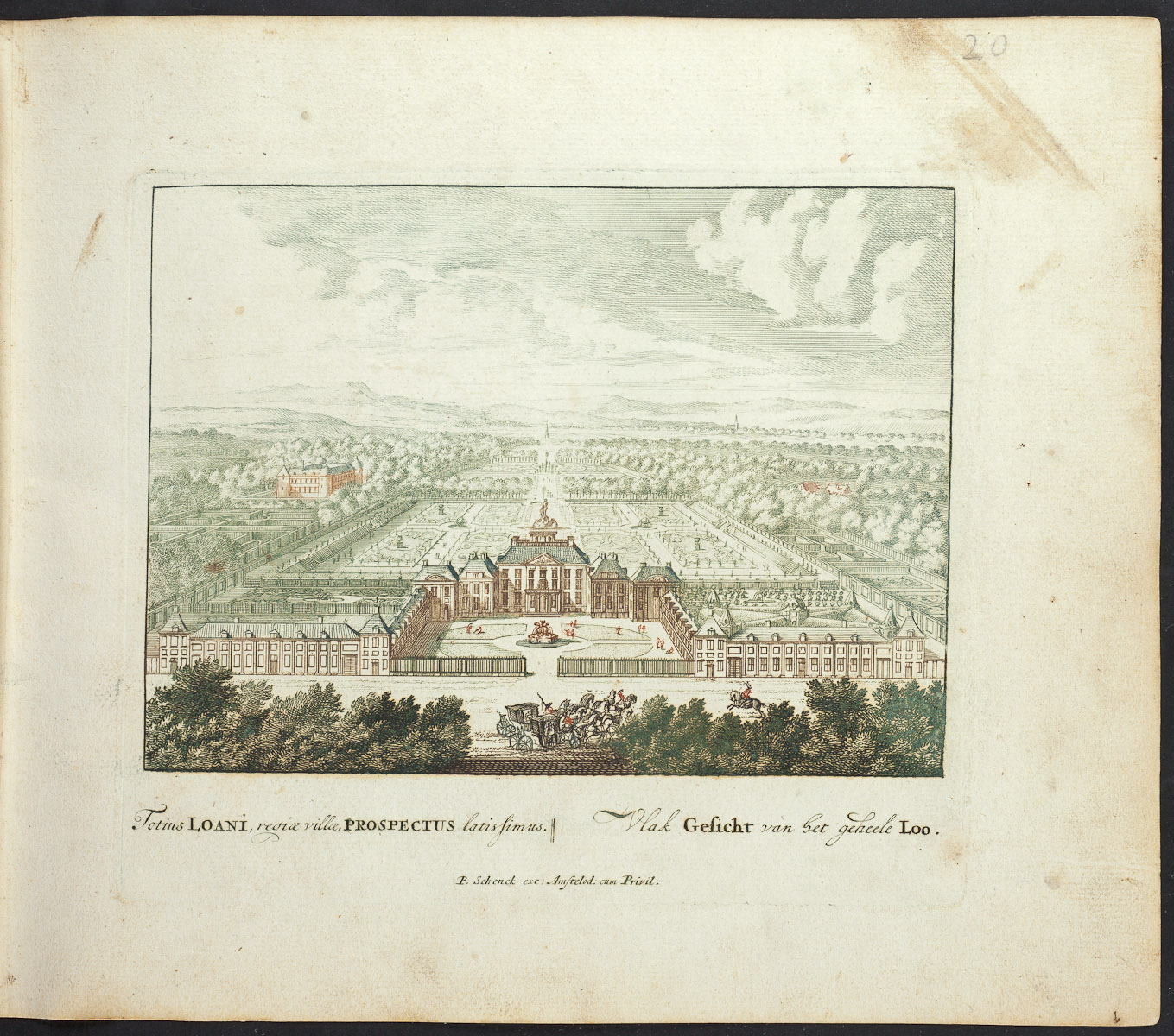 Afbeelding uit / Image taken from: Admirandorum quadruplex spectaculum / J. van Call (tek.) en P. Schenk (grav.). Amsterdam: P. Schenk, [ca. 1694-1697] Signatuur / Shelfmark: 2211 B 24 Zie ook het bladerboek op Image uploaded on 02-10-2013 from the Flickr stream of the Royal Library, The Hague (Koninklijke Bibliotheek, KB, national library of the Netherlands)